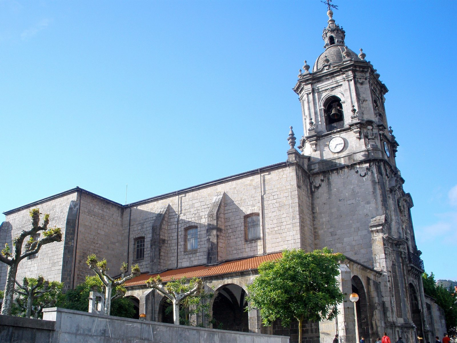 Iglesia de San Martín de Tours, Andoain (Guipúzcoa, País Vasco, España)